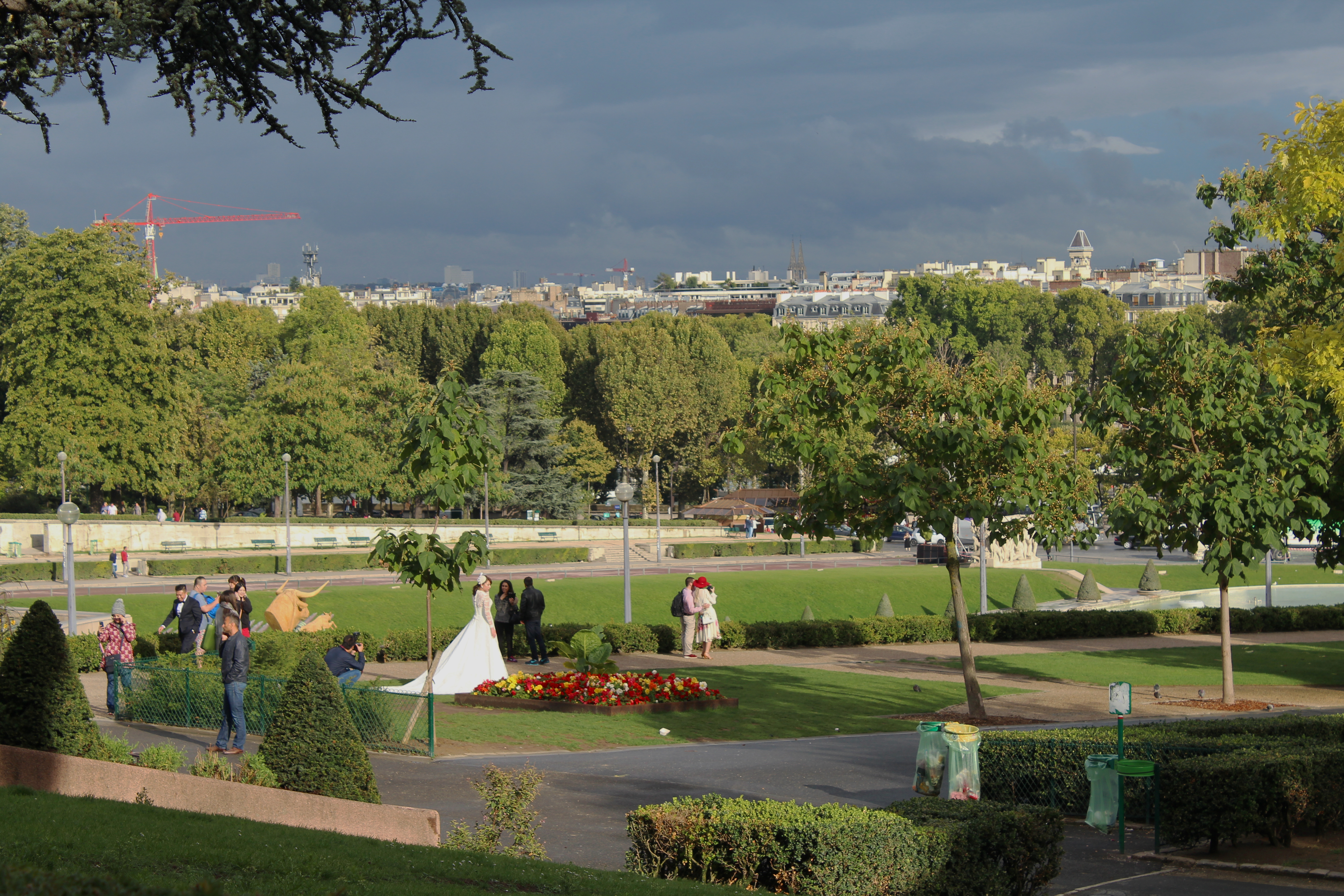 Garden besides Jardins du Trocadéro in Paris, France